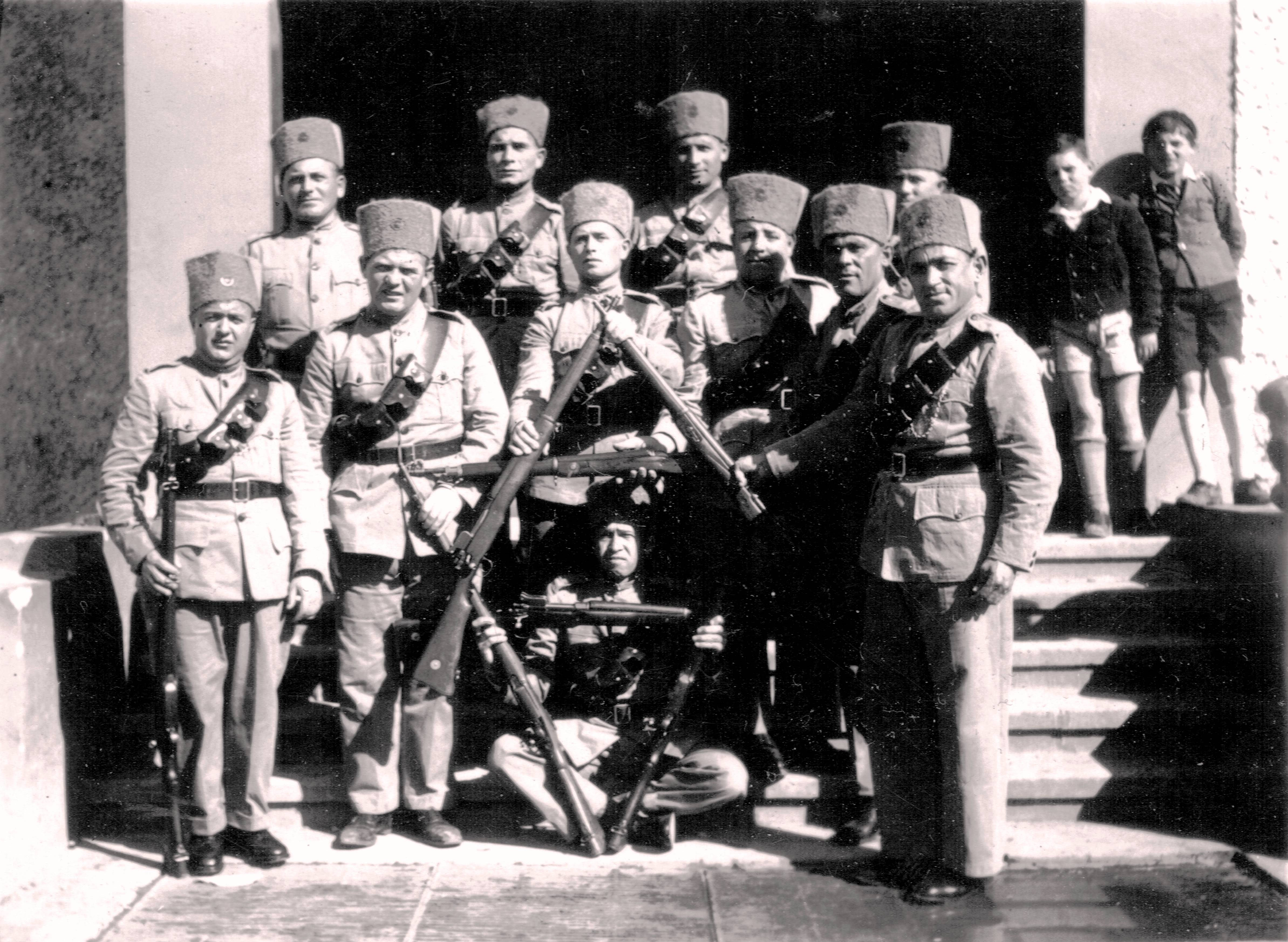 Ghaffirs -were member of the Jewish Supernumerary Police in 1936–1939 Arab revolt in Palestine. Ghaffirs in Nesher, small settlement near Haifa, Isreal